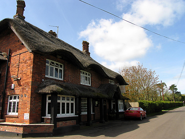 The Red House: Benham Marsh. This really nice bistro/pub is situated in the centre of the grid square near the intersection. The picture was taken from the northern side of the pub.